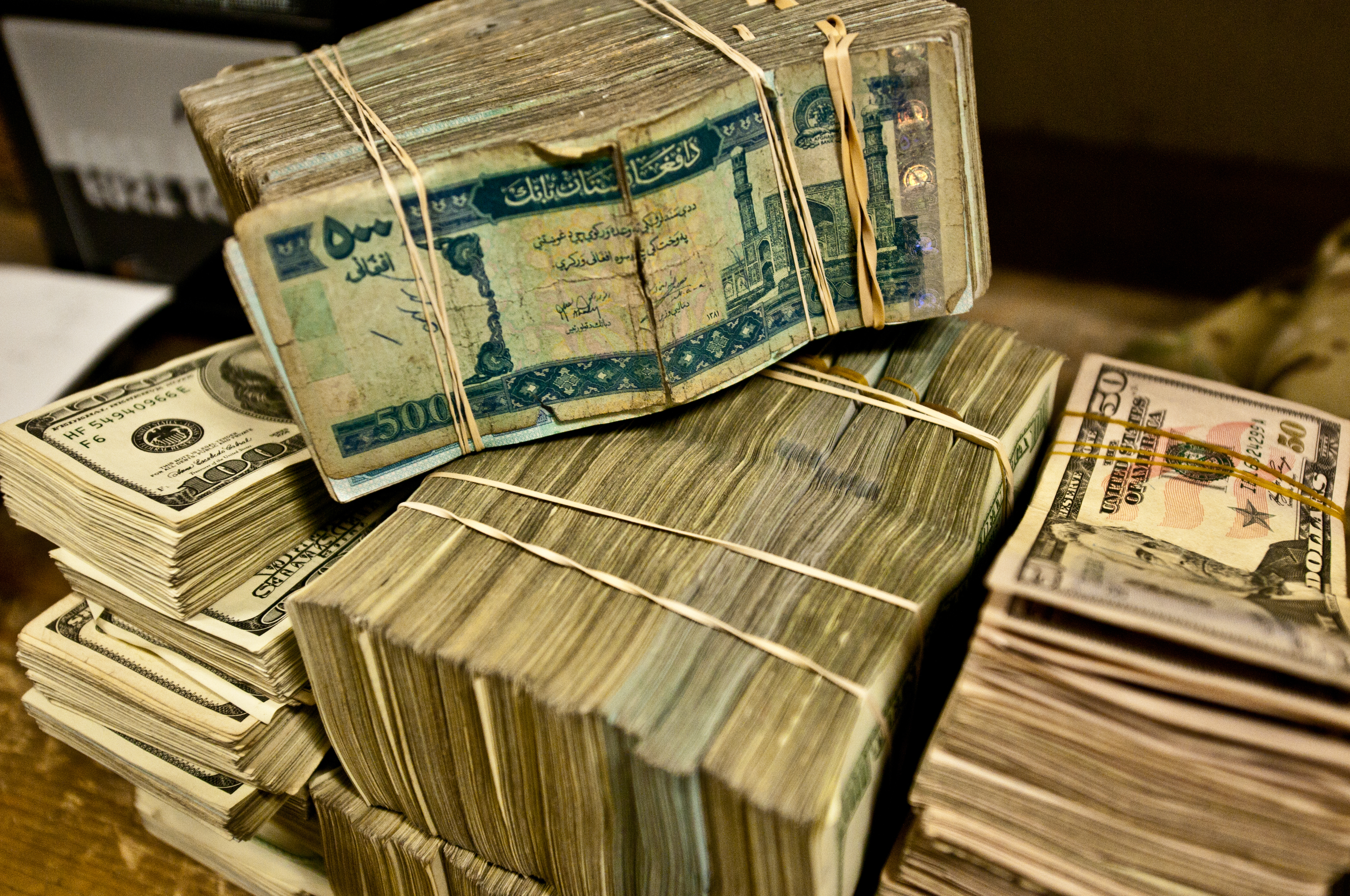 The 368th Financial Management Support Unit and subordinate detachments can have anywhere from $9-15 million worth in U.S. and foreign currency at any given time to support the warfighters. (Photo by Sgt. Michael K. Selvage, 10th Sustainment Brigade Public Affairs NCO)